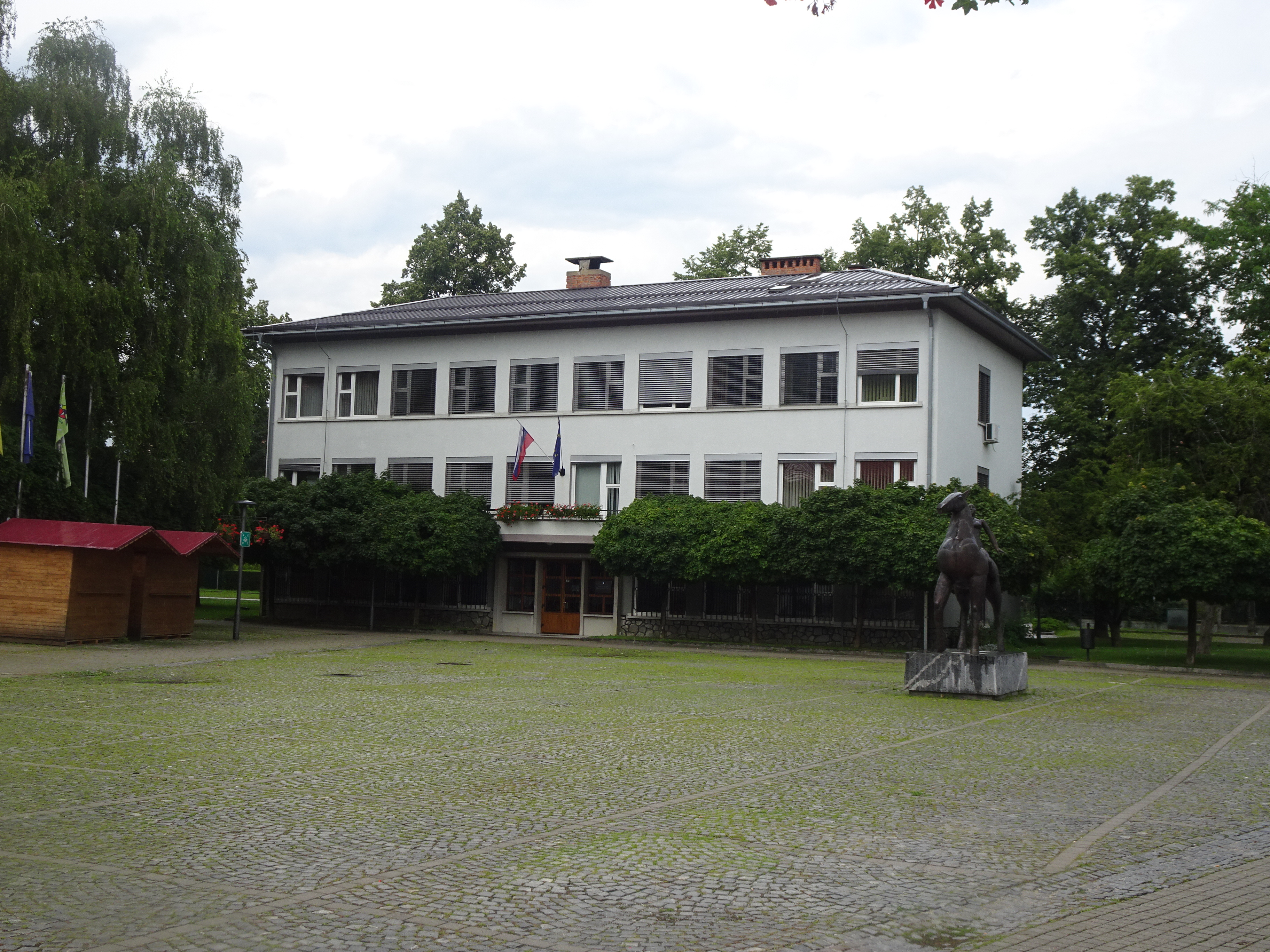 Mestni trg Slovenske Konjice, Slovenia